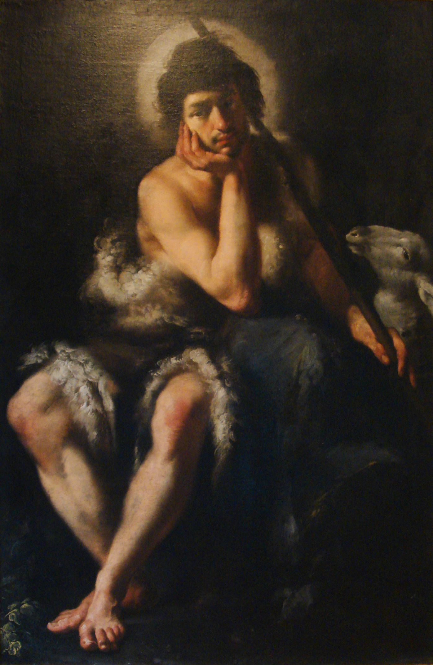 Saint John the Baptist